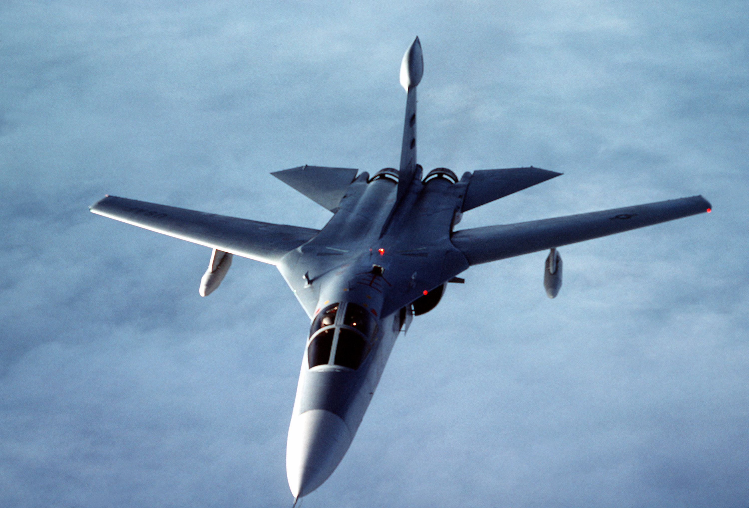 An air-to-air overhead front view of an EF-111A Raven aircraft en route to RAF Upper Heyford, United Kingdom, from Pease Air Force Base, New Hampshire.